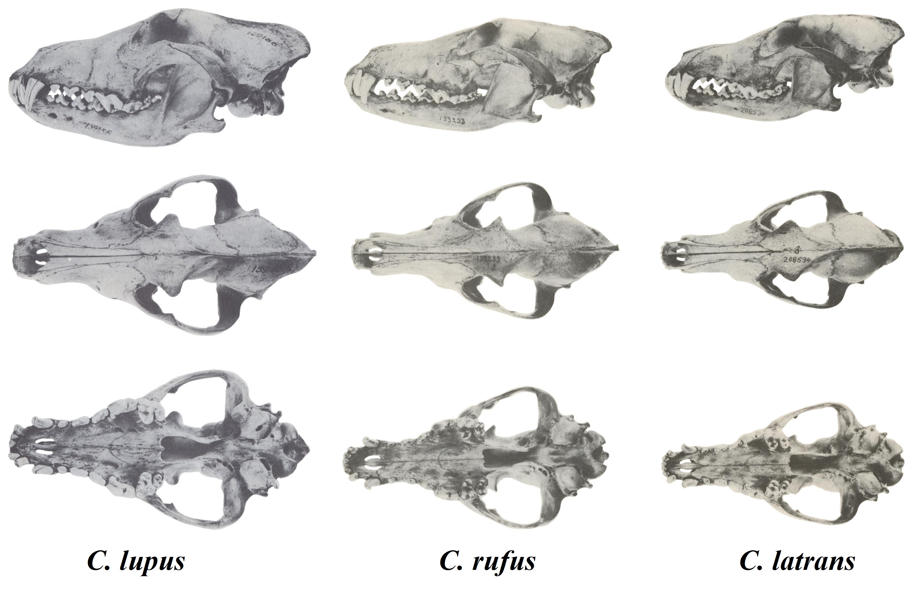 Gray wolf, red wolf and coyote skulls